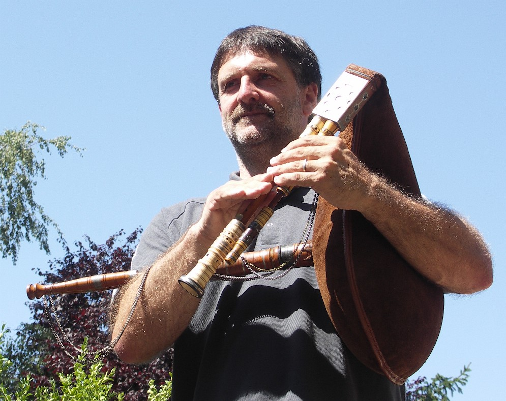 Chabretaire